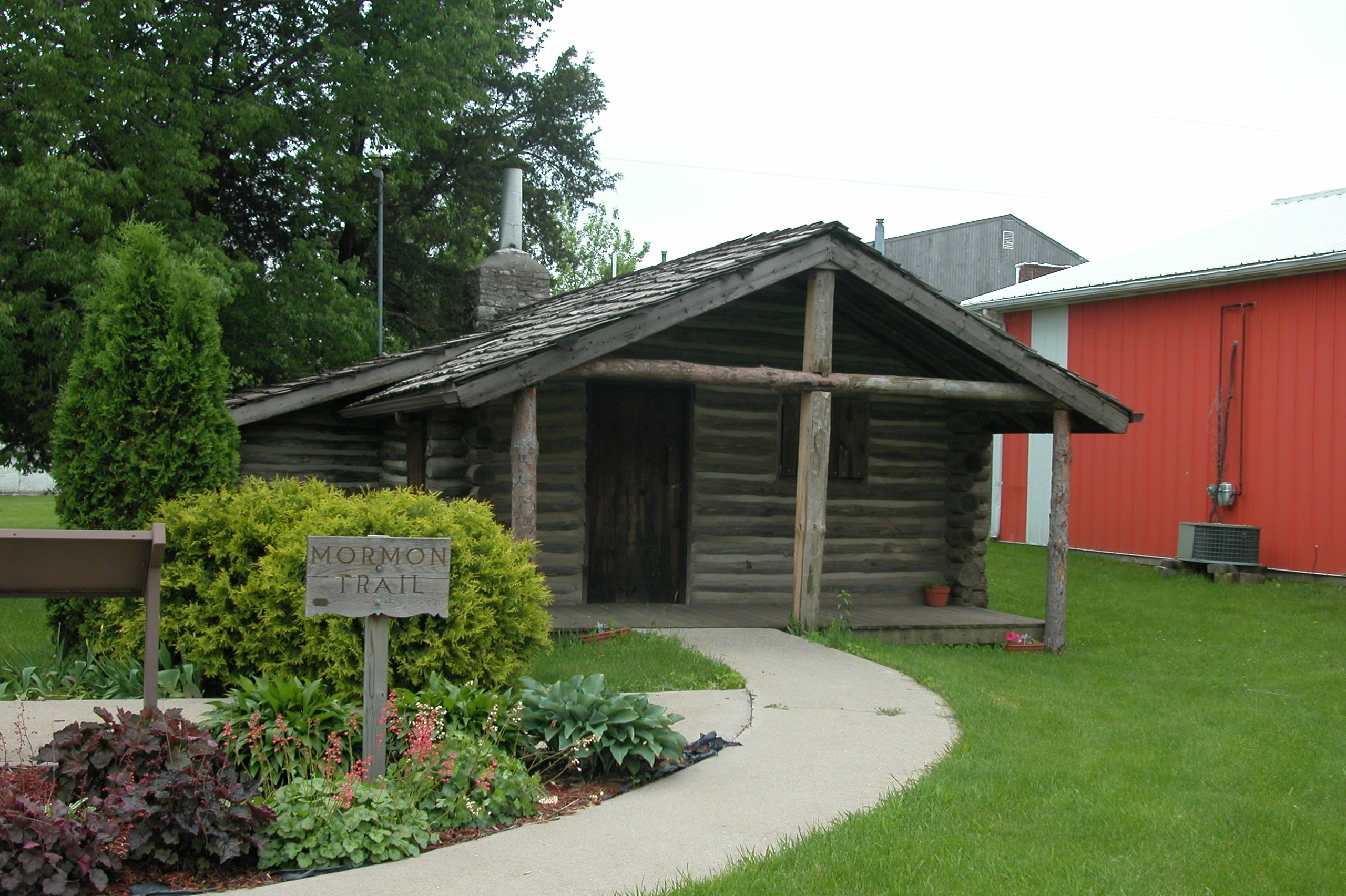 ATR-The Mormon Pioneer Trail Across Iowa in 1846-19 Keywords: murray trail exhibits; mopi; mormon pioneer national historic trail